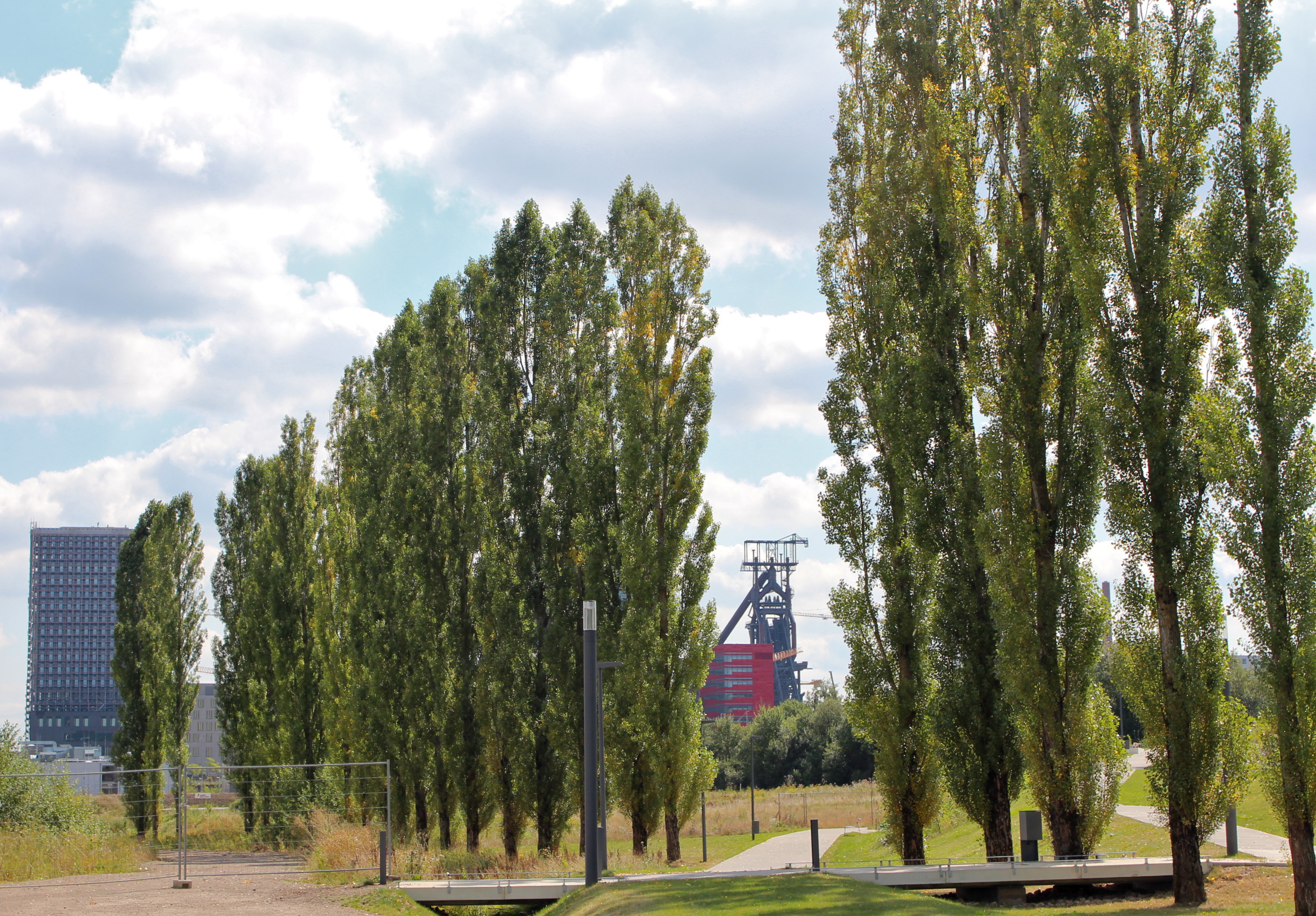 Parc Belval in the making, Summer 2013; Belval, Luxembourg.